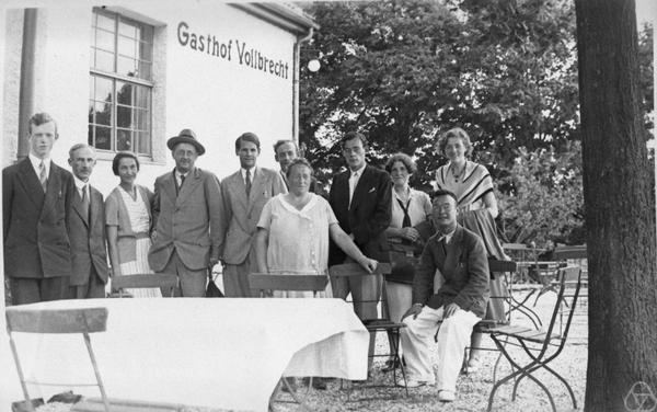 Annotation: From left to right: Ernst Witt; Paul Bernays; Helene Weyl; Hermann Weyl; Joachim Weyl, Emil Artin; Emmy Noether; Ernst Knauf; ??; Chiuntze Tsen; Erna Bannow (later became wife of Ernst Witt) — Location: Nikolausberg (near Göttingen) — Author: Artin, Natascha (photos provided by Artin, Natascha) — Source: archives of P. Roquette, Heidelberg and C. Kimberling, Evansville — Year: 1932